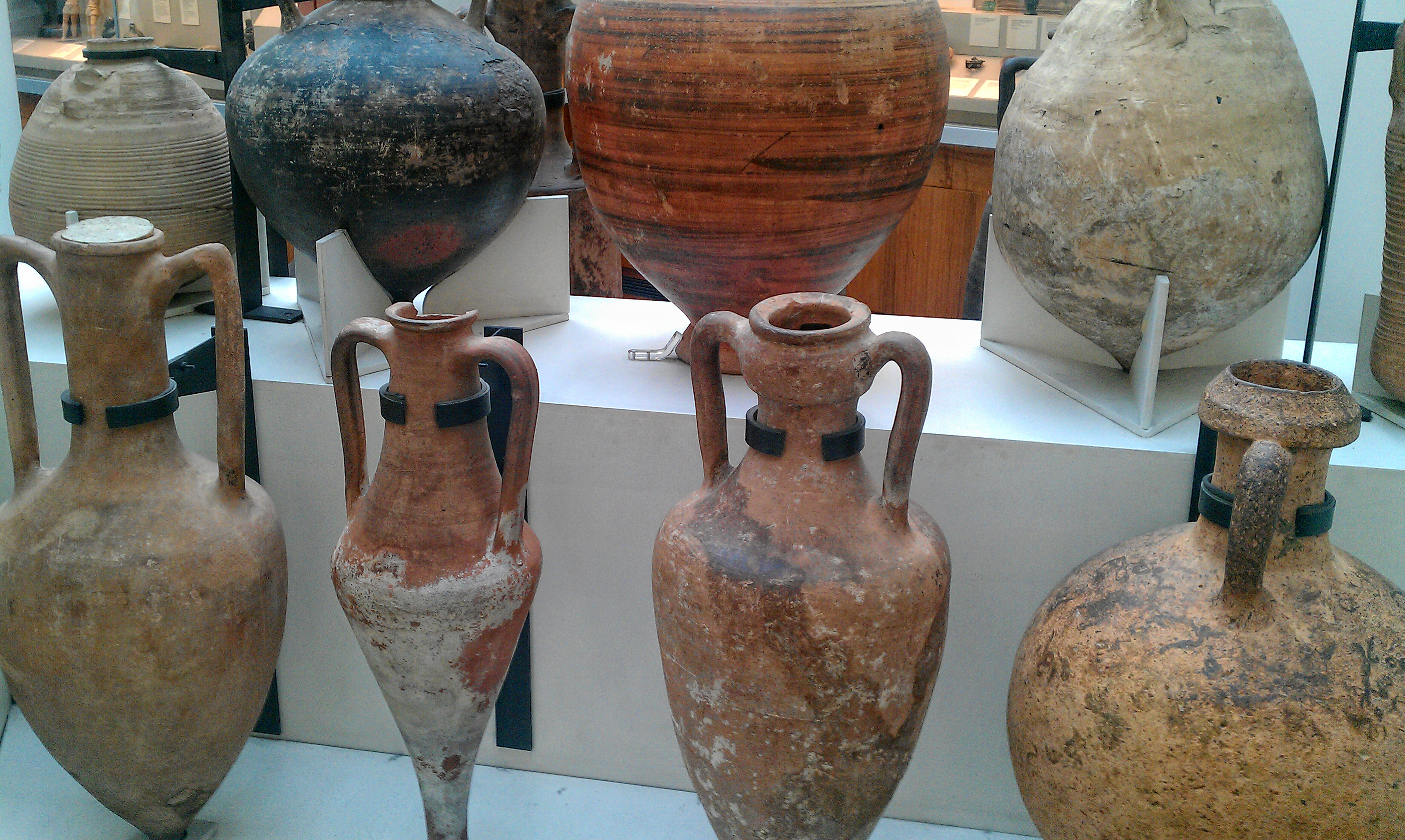 Greek Amphoras for Wine and Oil - British Museum